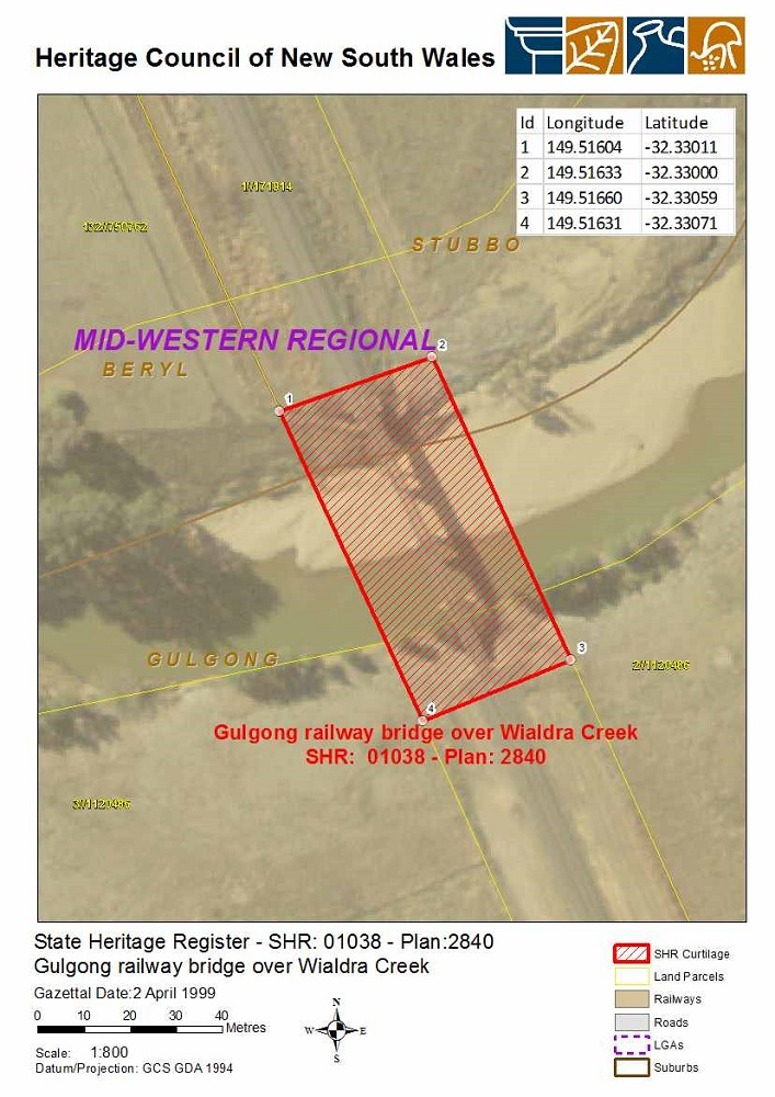 Wyaldra Creek railway bridge, Gulgong: SHR Plan 2840